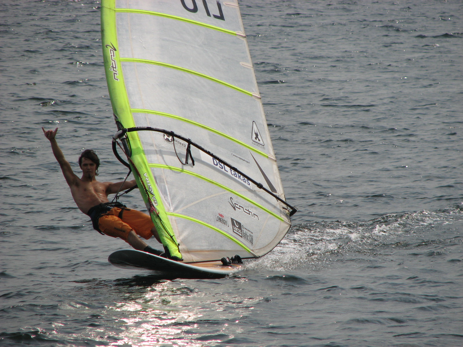 Windsurfing, Jovana, Lithuania